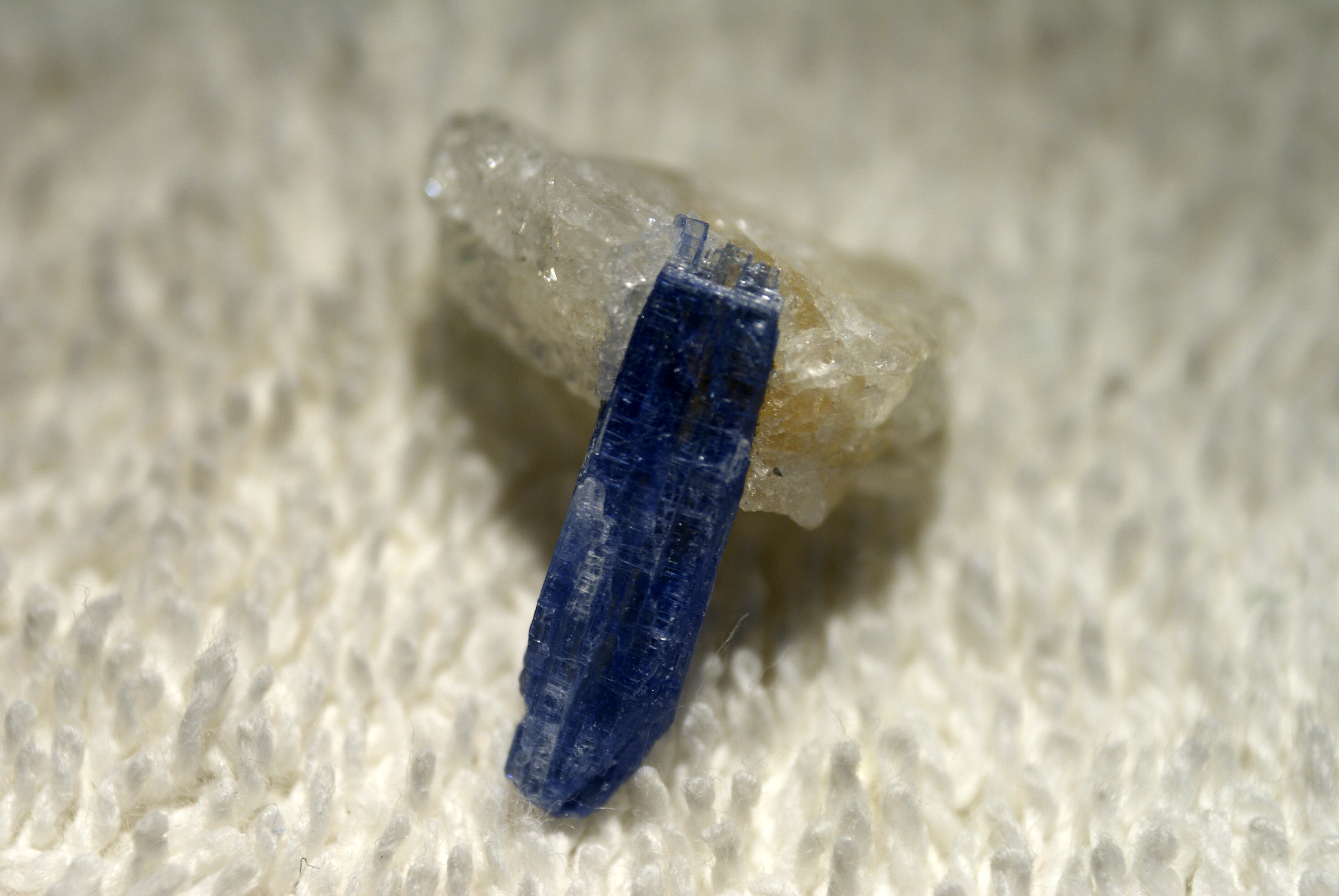 Kyanite